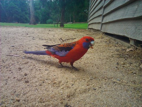 A Crimson Rosella at Hanging Rock, Victoria, Australia.